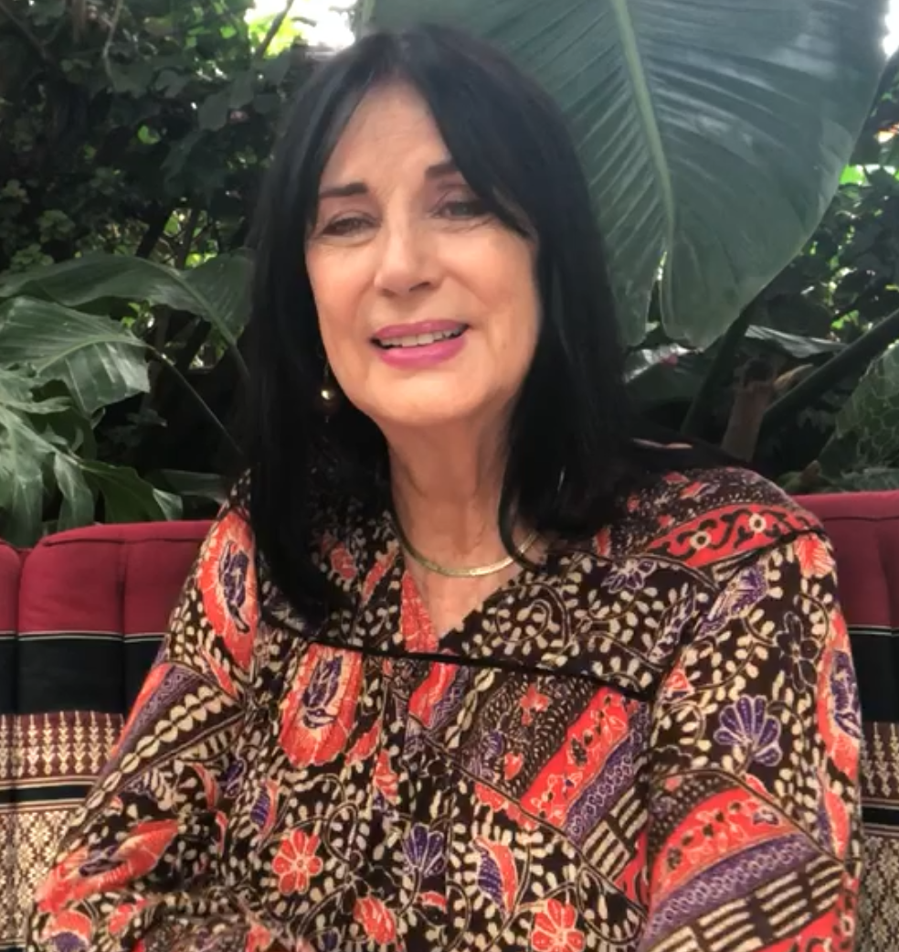 Helena Rojo